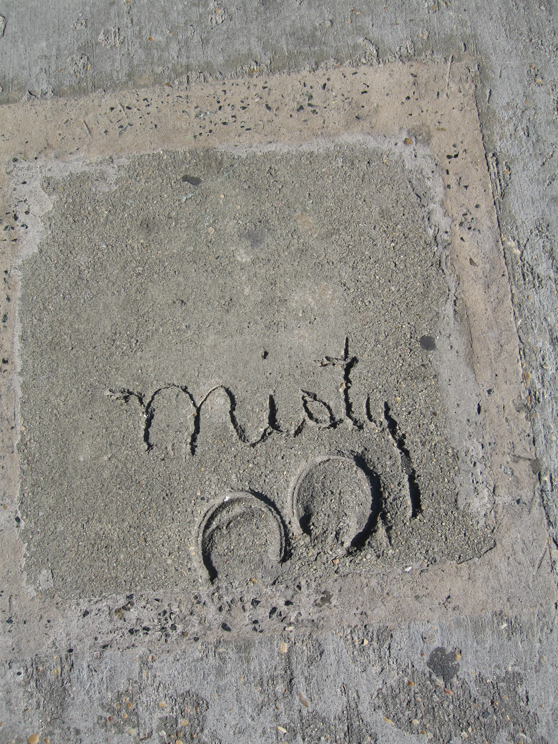 Misty hoofprints cased in cement in front of the Island Roxy, 4074 Main Street, Chincoteague Island, Virginia.